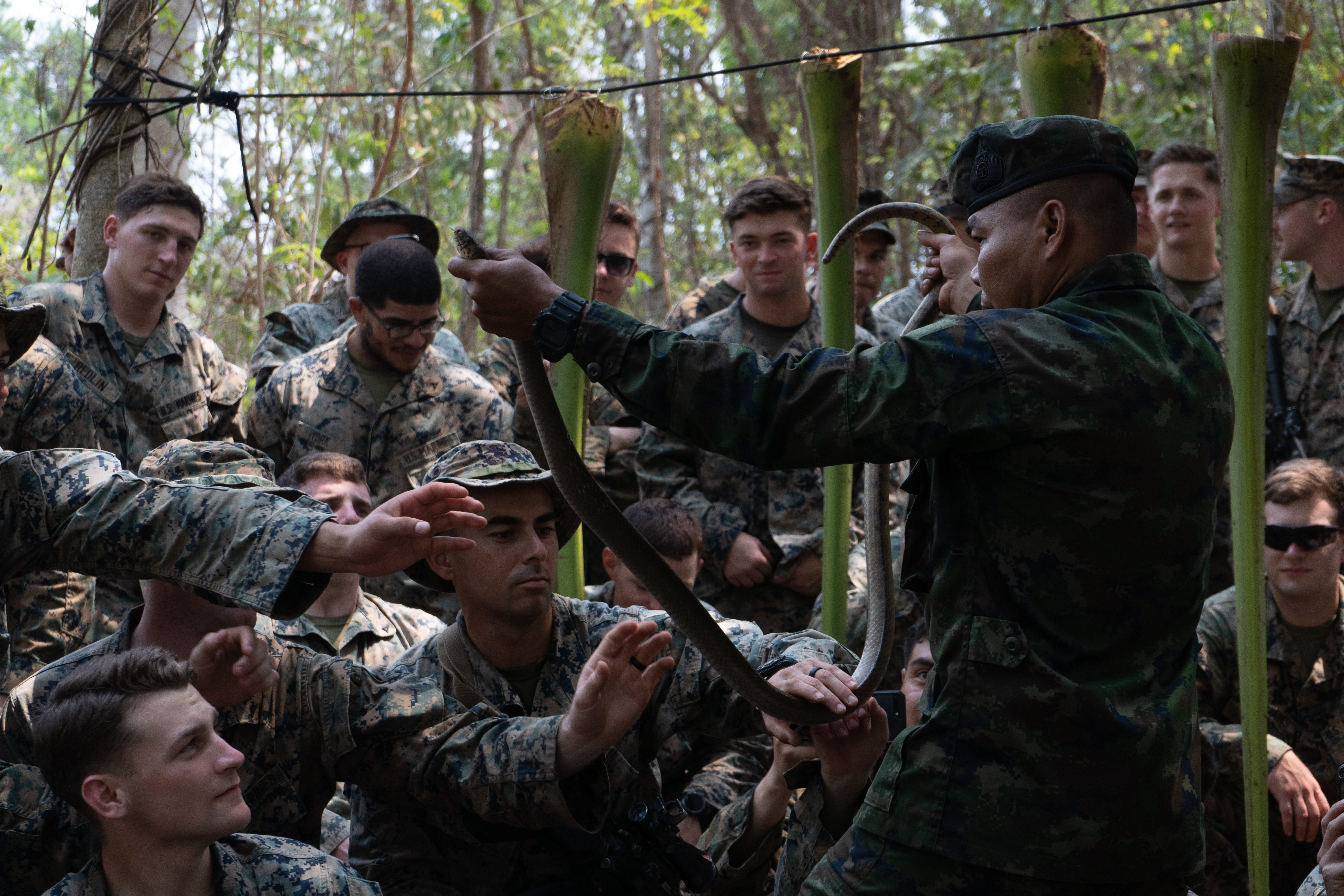 Royal Thai Marine Petty Officer 2nd Class Chaiwat Rodsin, Jungle Survival Trainer with Marine Recon Patrol allows U.S Marines to feel a snakes skin during jungle survival training alongside his U.S. Marine counterparts during exercise Cobra Gold 2020 in Ban Chan Khrem, Chanthaburi, Kingdom of Thailand, Mar. 1, 2020. The Marines learned essential skills necessary for surviving in a jungle environment, such as making a fire, eating plants and alternative ways to stay hydrated. Exercise Cobra Gold 20 is the largest theater security cooperation exercise in the Indo-Pacific region and is an integral part of the U.S. Commitment to strengthen engagement in the region. (U.S. Army Photo by Sgt. Nicolas Cholula)